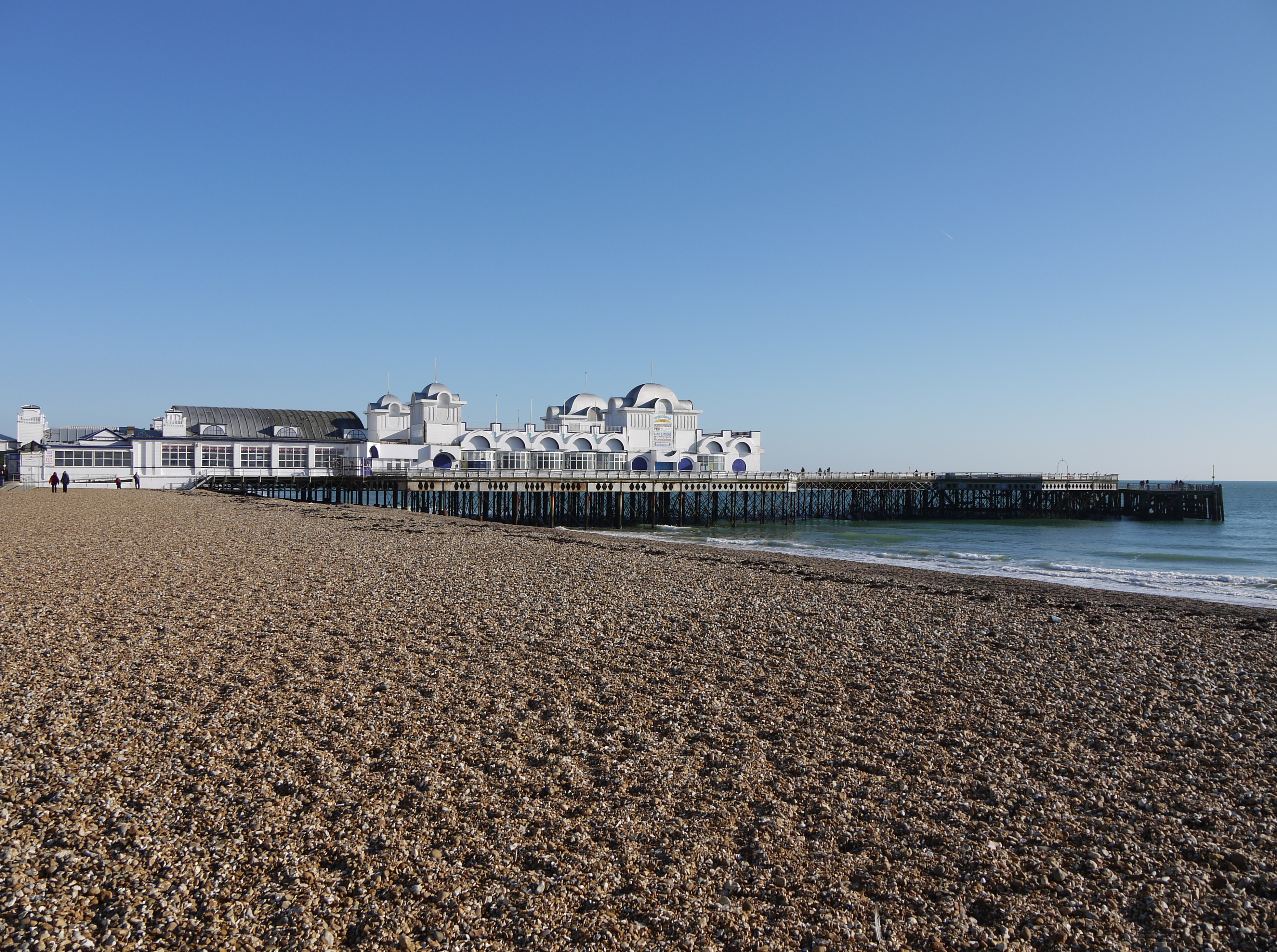 Photo of South Parade Pier taken in jan 2011 from the west